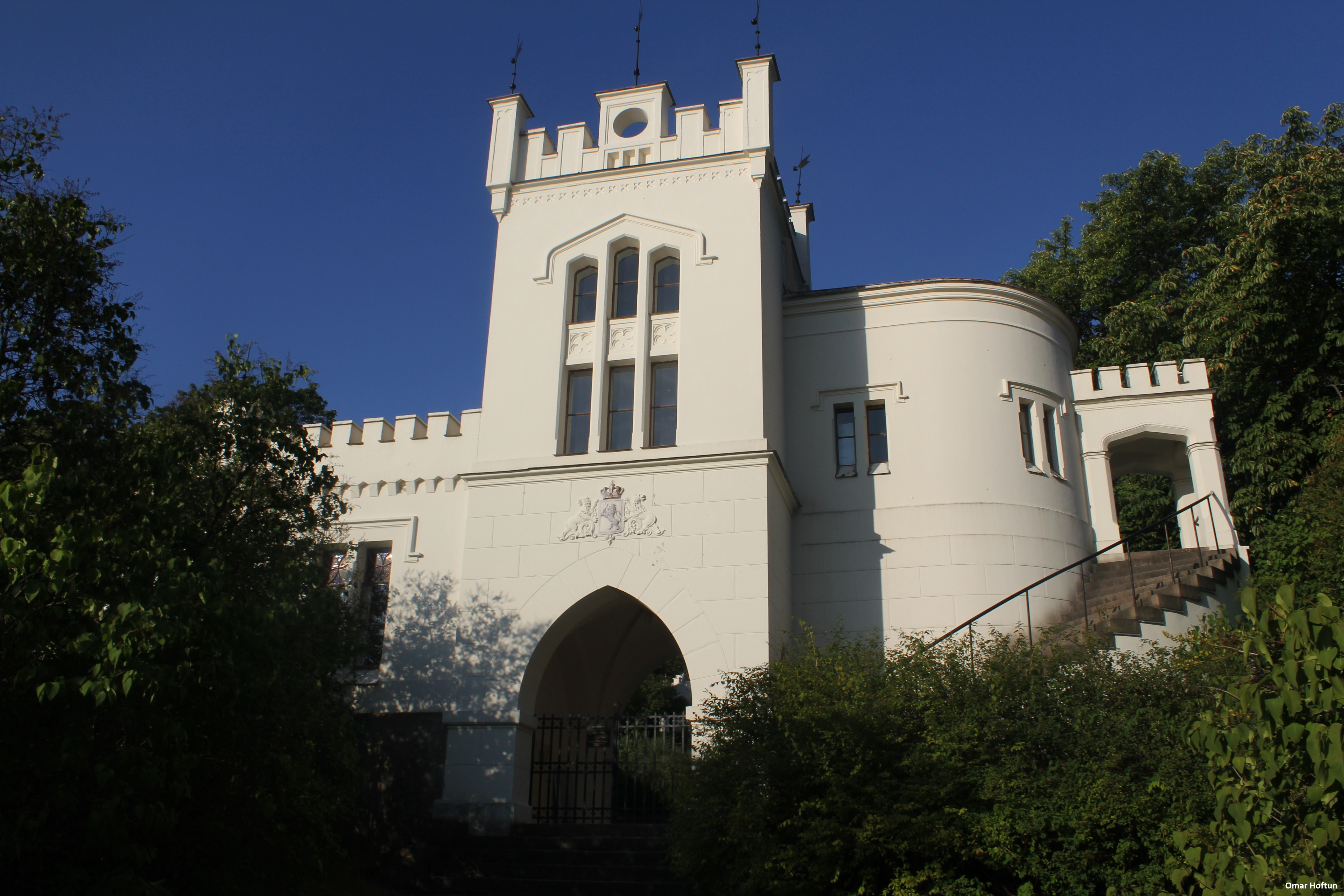 One of the buildings at Oscarshall in Bygdøy.